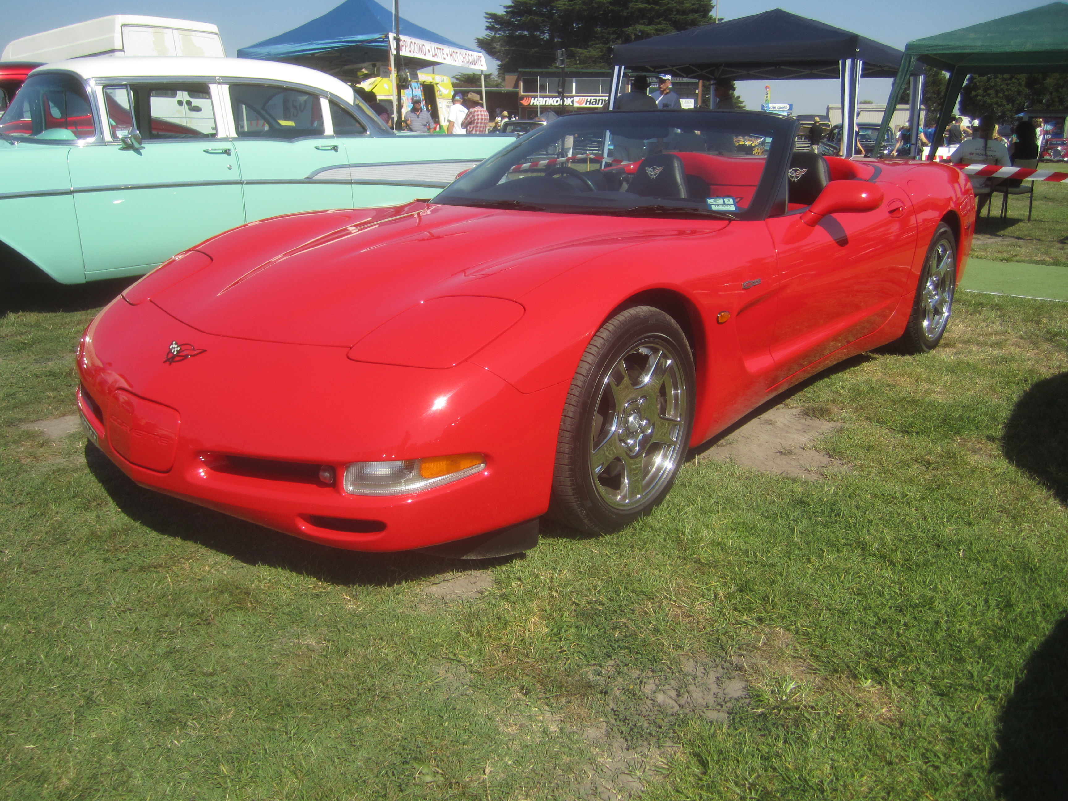 Torch Red The C5 was made from 1997-2004, the transmission was relocated to the rear, enabling better weight distribution for improved handling. Like the C4, there were little visual changes through the years. Only a fastback was available in 1997, the convertible introduced in 1998 and the hardtop coupe in 1999. The successor to the ZR-1 made its debut in 2001, the high performance 385 hp 5.7 litre LS6 Z06 (base was the LS1) A 50th Anniversary Edition package was offered for coupe and convertible in 2003